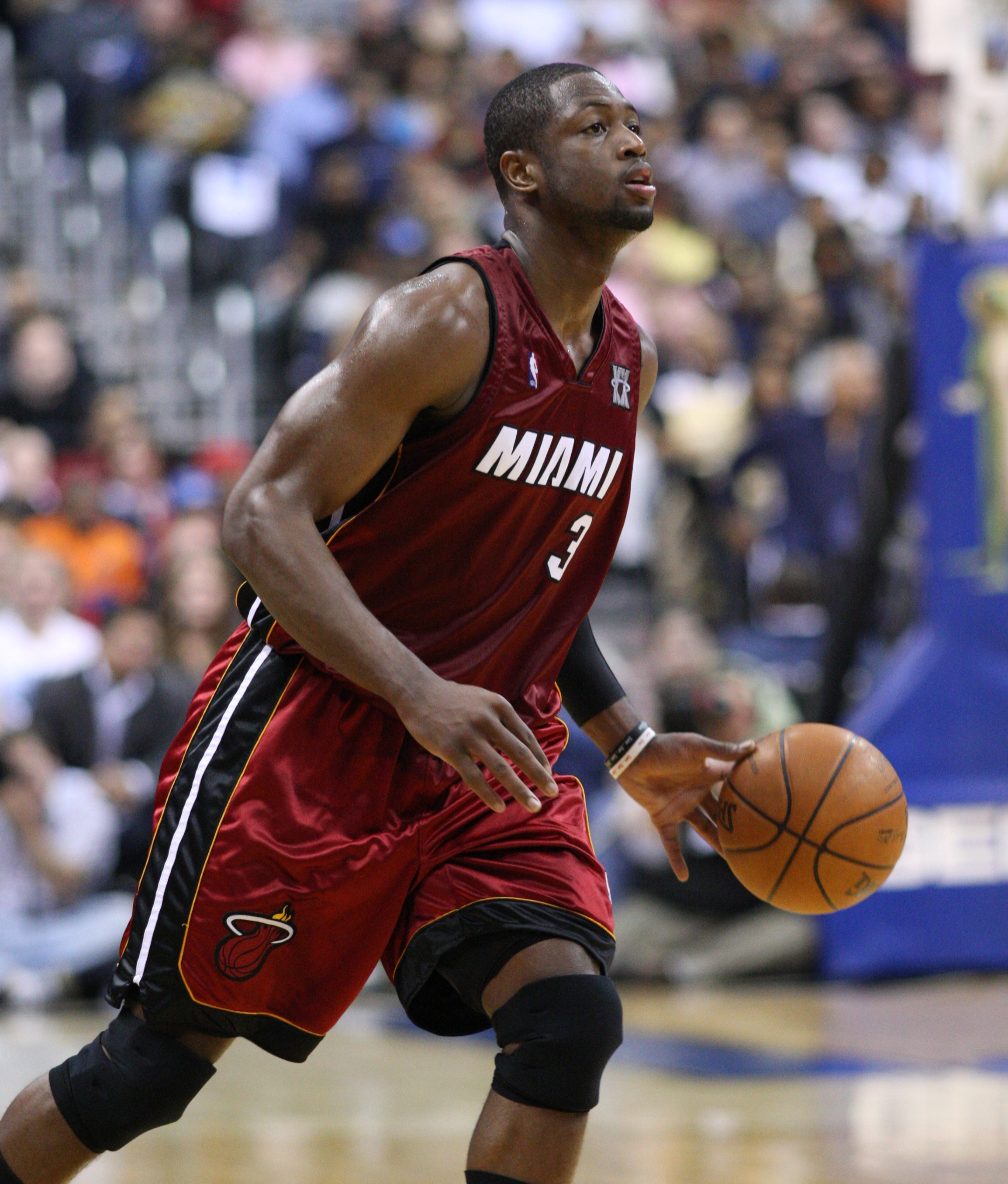 Dwyane Wade, Miami Heat, 2007